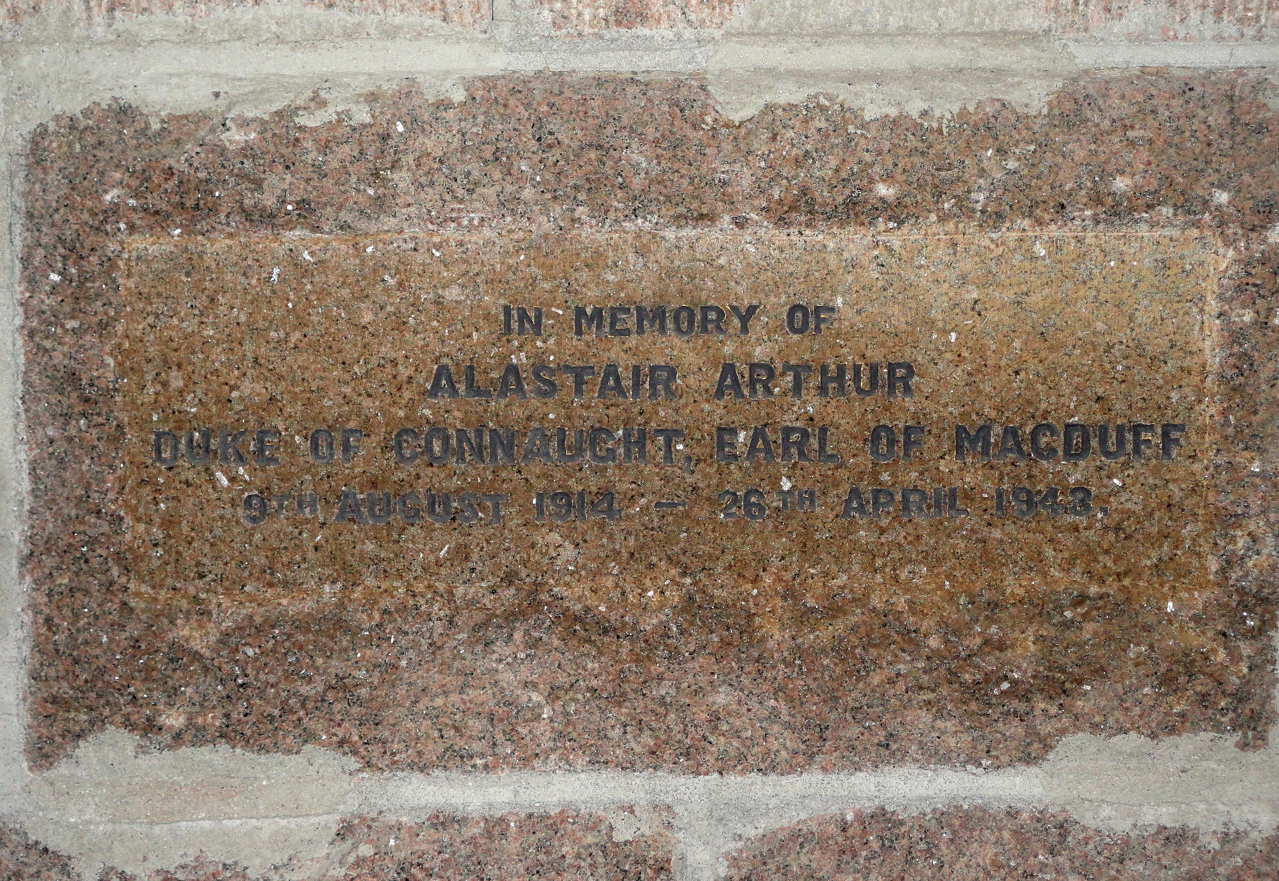 Braemar, Mar Lodge Estate, St Ninian's Chapel - stone set in the wall with inscription commemorating the 2nd Duke of Connaught (1914–1943)